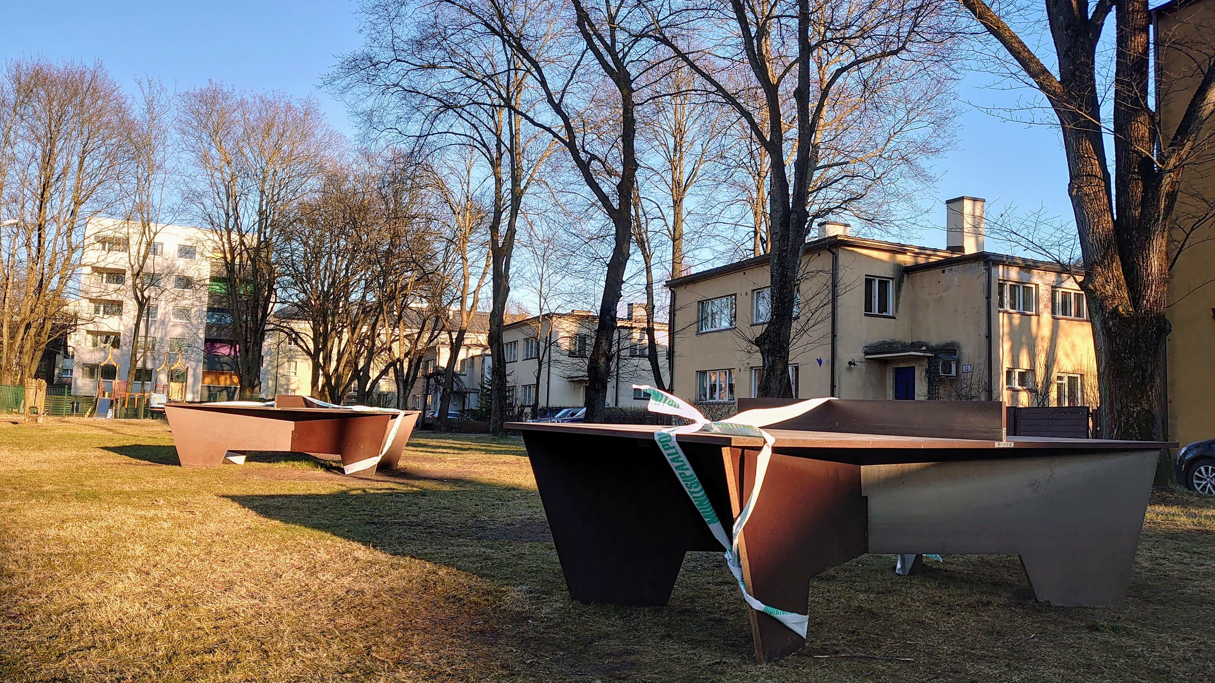 Publicly-owned sports and playground are closed to prevent the spread of coronavirus.